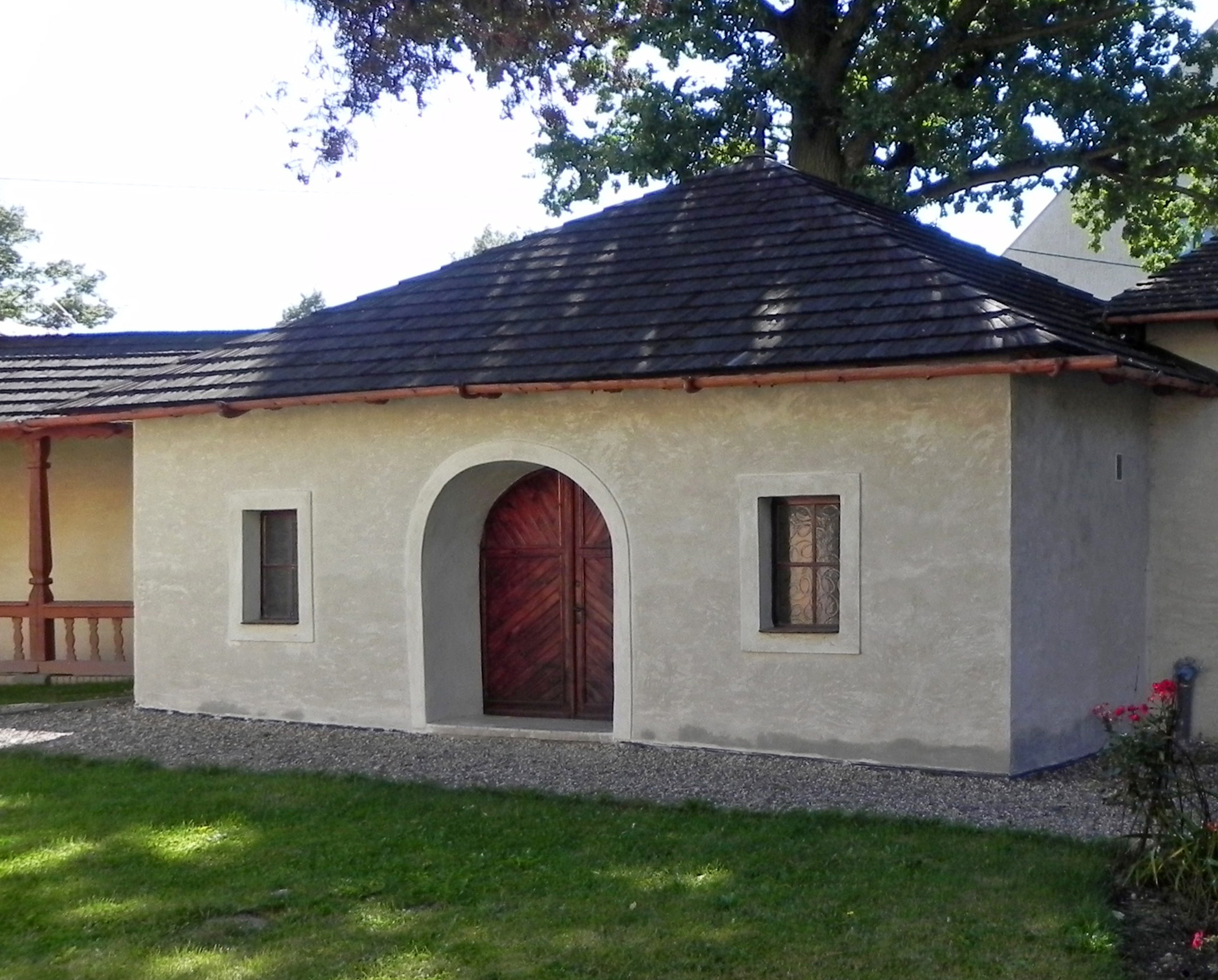 Saint James church cemetery in Krosnowice